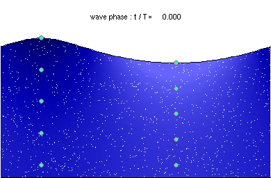 Stokes drift in deep water waves, with a wave length of about twice the water depth. Description of the animation: The red circles are the present positions of massless particles, moving with the flow velocity. The light-blue line gives the path of these particles, and the light-blue circles the particle position after each wave period. The white dots are fluid particles, also followed in time. In the case shown here, the mean Eulerian horizontal velocity below the wave trough is zero. Observe that the wave period, experienced by a fluid particle near the free surface, is different from the wave period at a fixed horizontal position (as indicated by the light-blue circles). This is due to the Doppler shift.